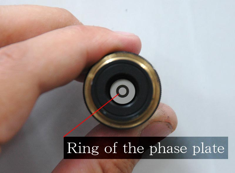 Phase microscope objective-ring_of_the_phase_plate・位相差顕微鏡用対物レンズの構造